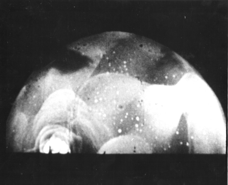 U.S. nuclear weapon test Ivy Mike, 31 Oct 1952, the first test of a hydrogen bomb. This is a photo of the fireball a few microseconds after detonation, captured by high-speed camera. The fireball measured 3 1/2 miles in diameter.